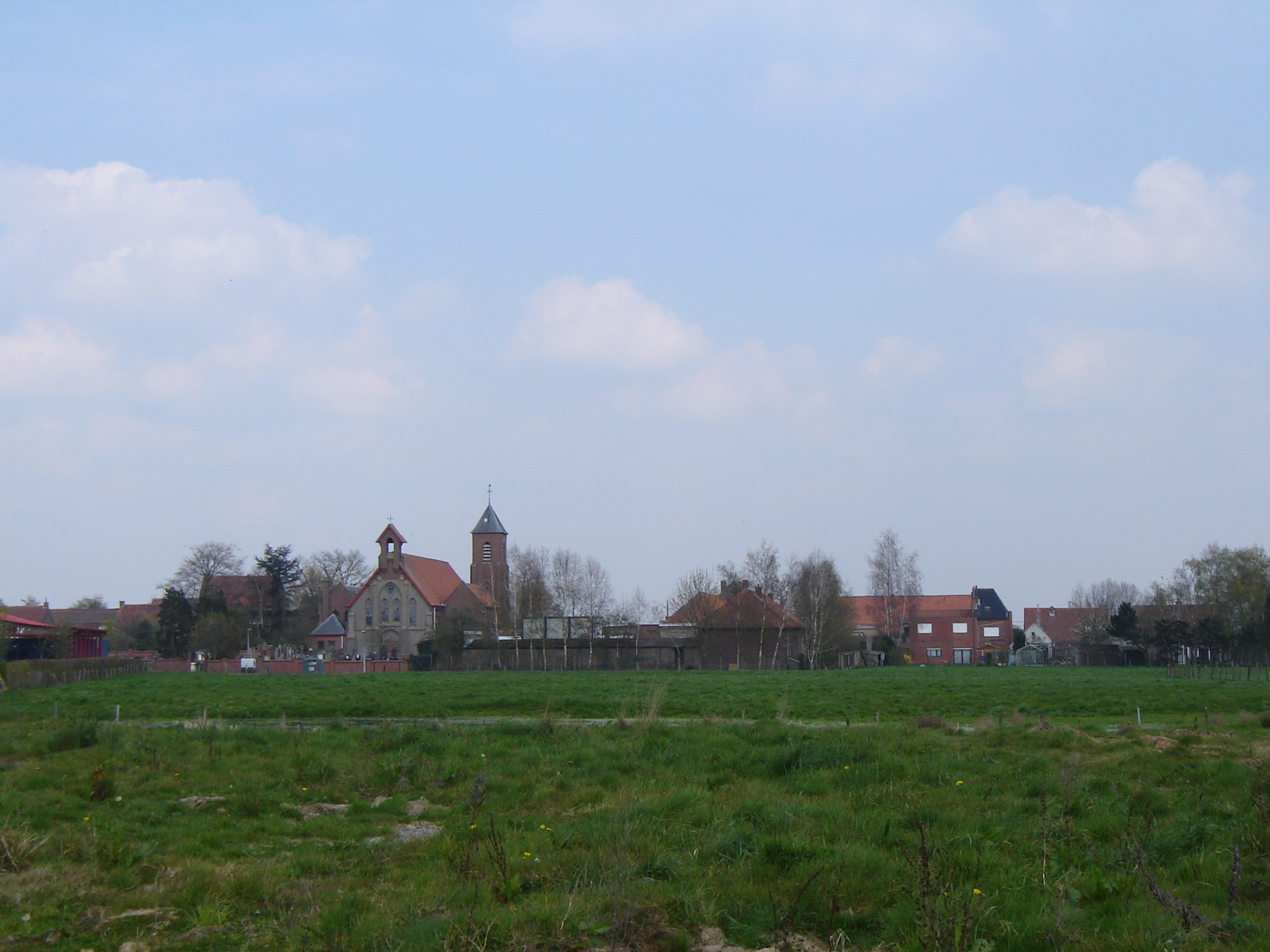 View on the hamlet of Kruiseke in Wervik, West Flanders, Belgium